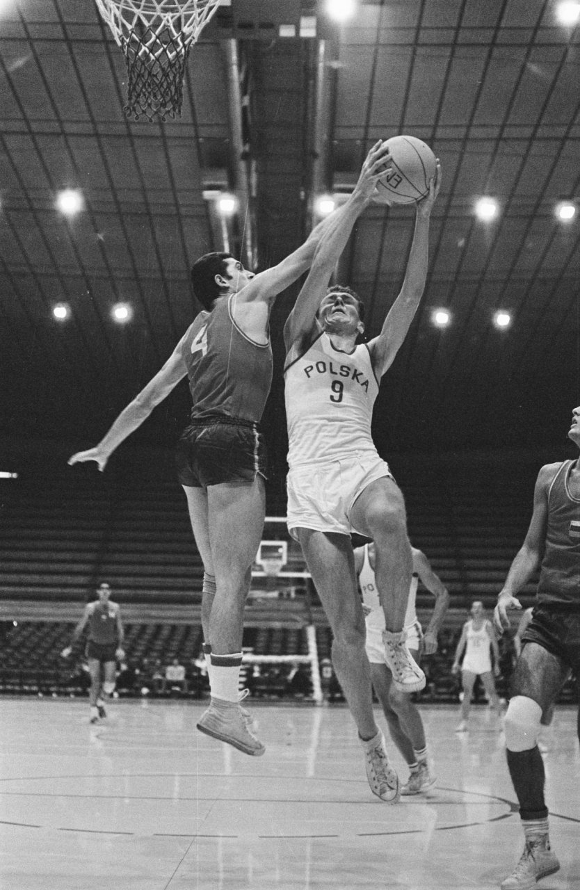 European basketball championship 1968 in Helsinki, Spain vs Poland